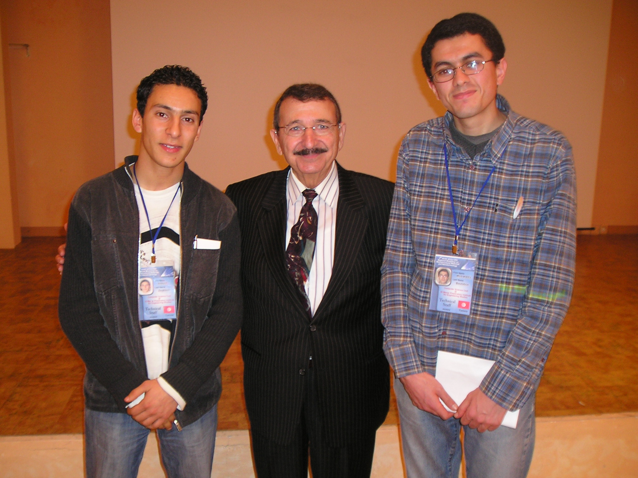 This is the photo of Pr. Mustapha El-Sayyed with two students. It was taked in Tunisia during the 1st workshop on nanostructured materials and nanotechnology, March, 17 2008